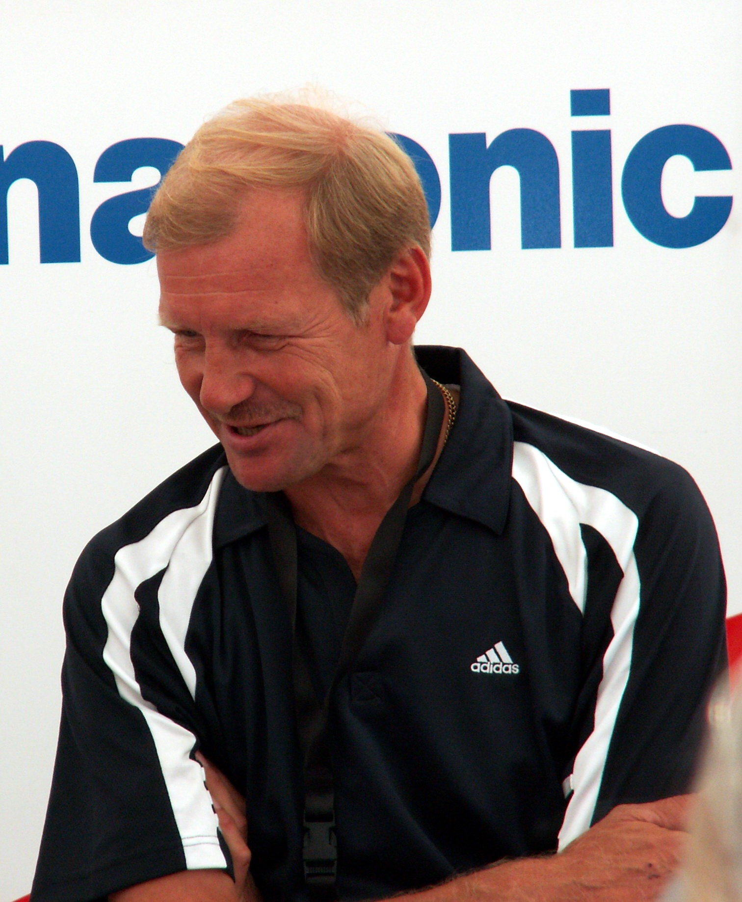 Juha Kankkunen in Helsinki City Grand Prix.